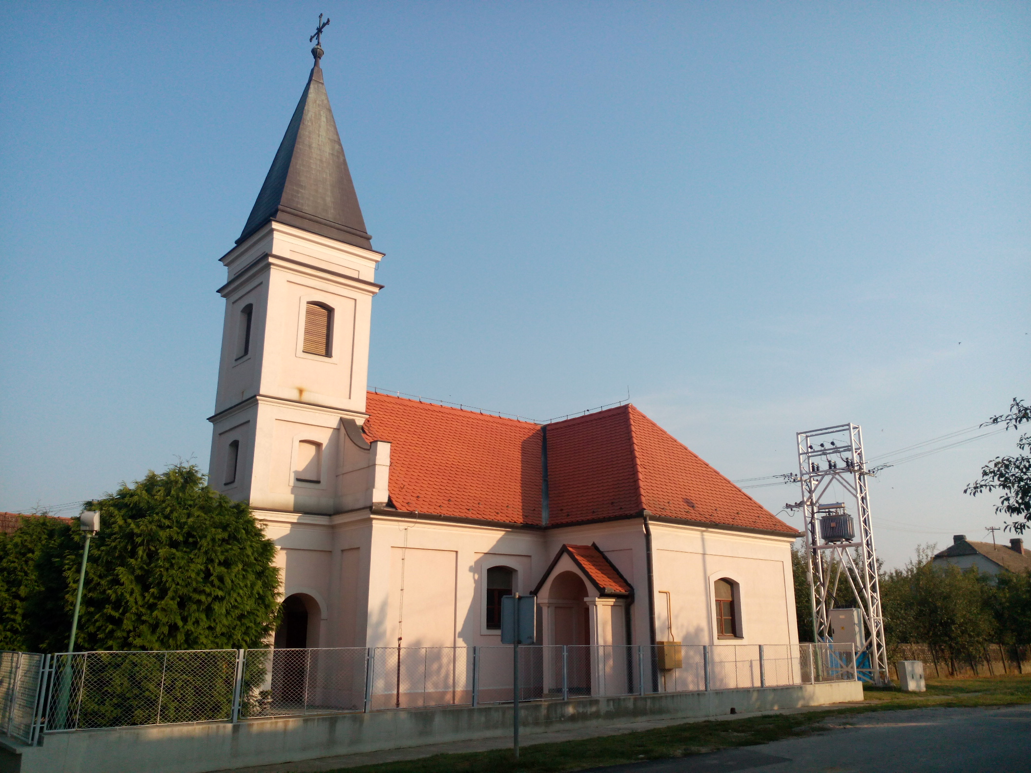 St. Bartholomew's Church, Šag.